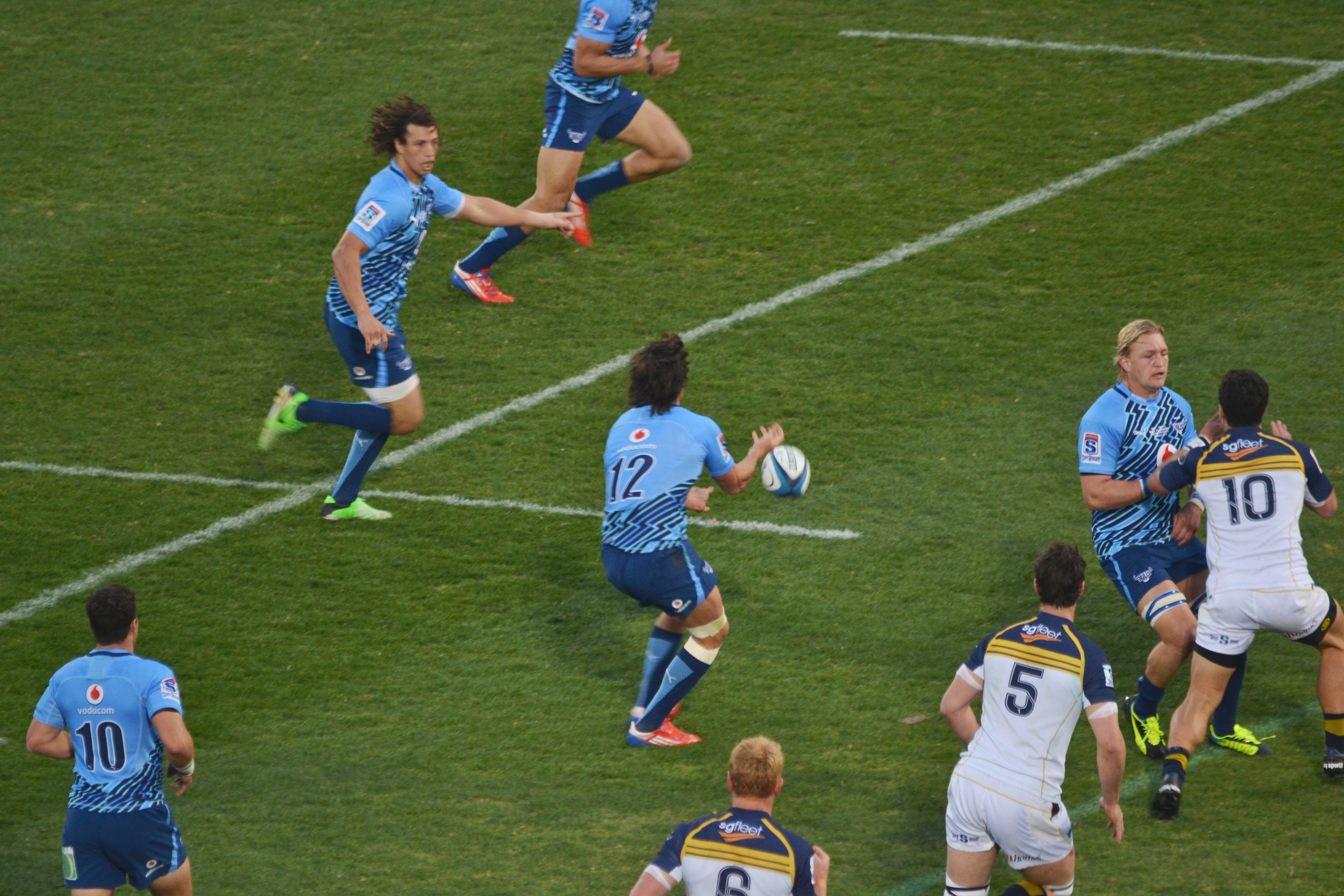 The Vodacom Bulls team to face the Brumbies 27 July 2013